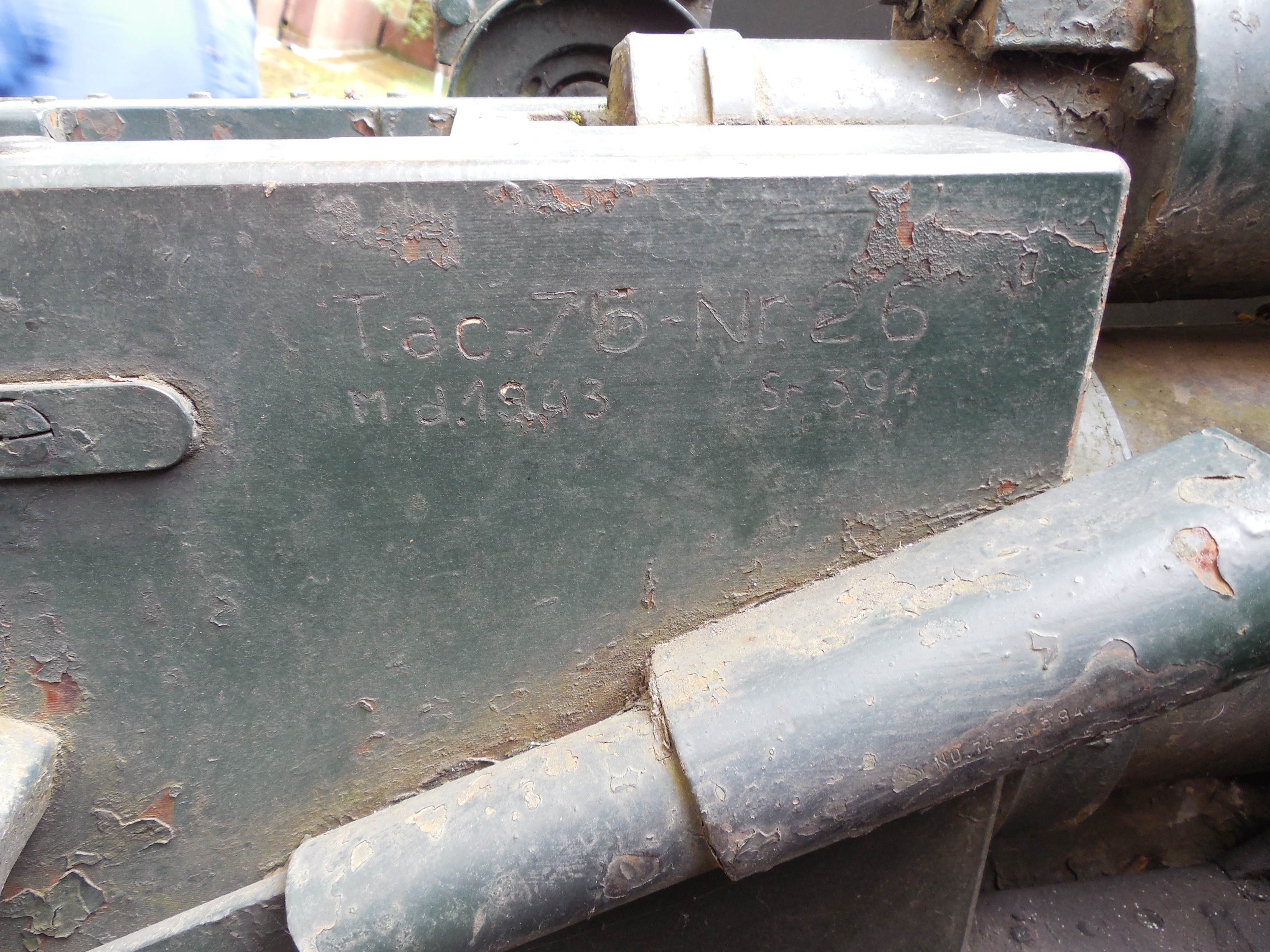 Inscriptions on the right hand side of the 75mm Resita Model 1943 AT gun on display in front of the Military Museum in Oradea, Romania